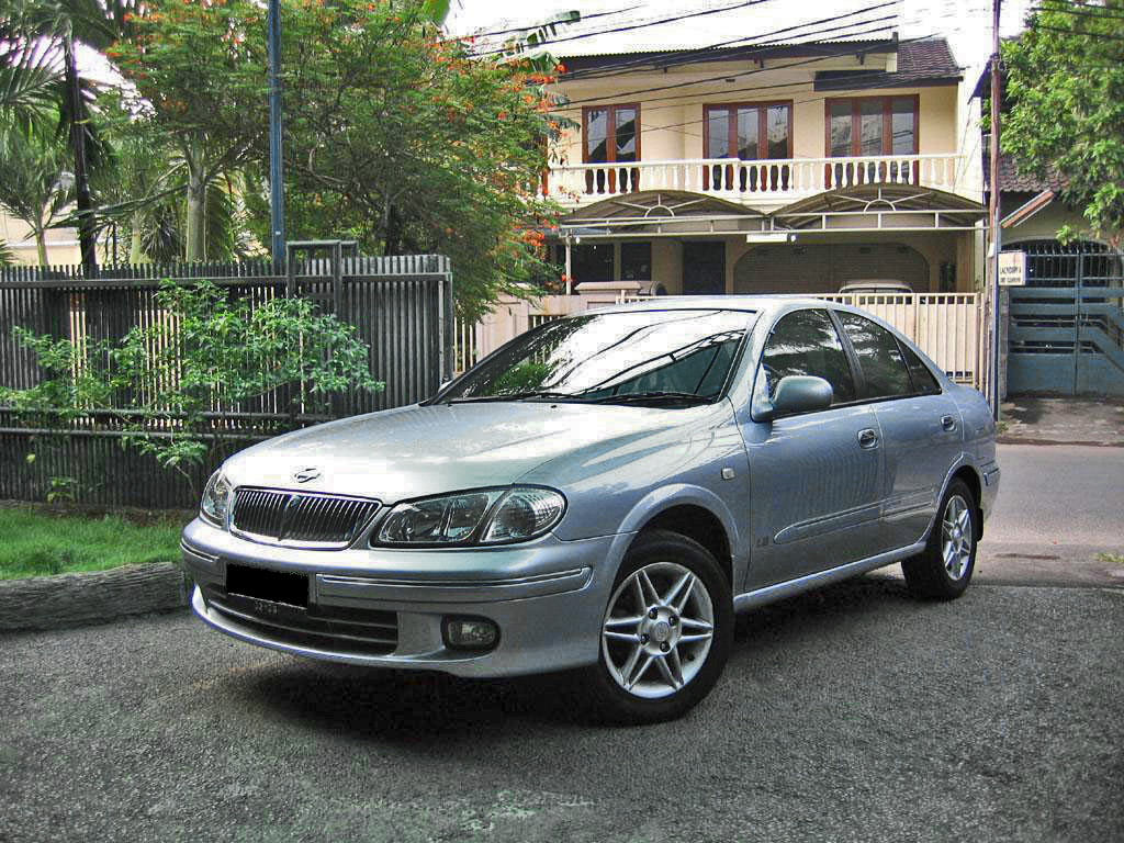 2004 Nissan Sentra 1.8 Super Saloon N16. Photo by Celica21gtfour.